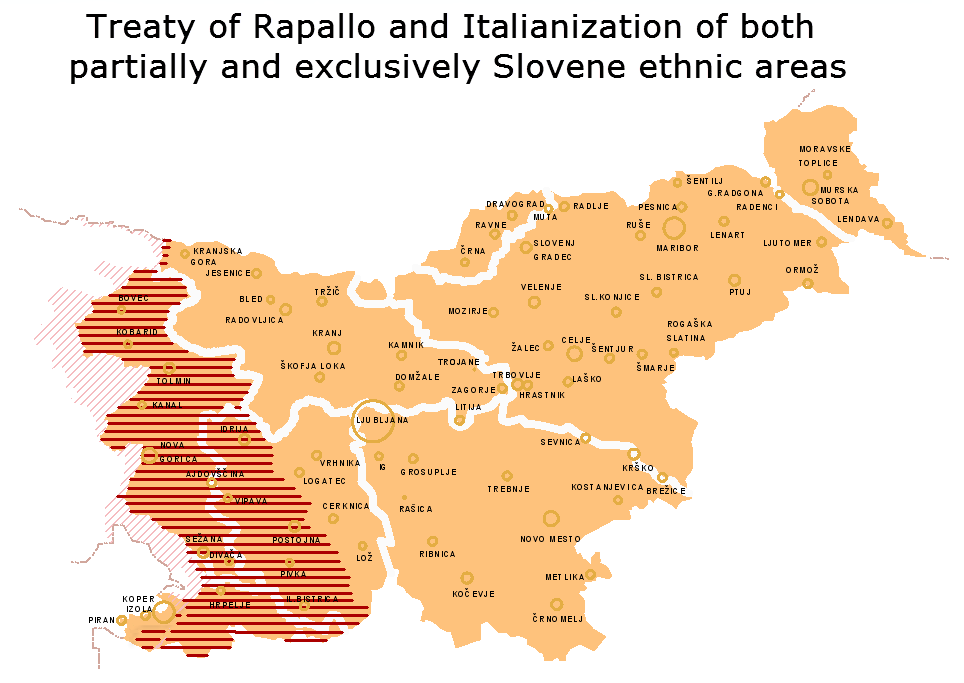 The Treaty of Rapallo and the Italianization of ethnic Slovenes on the Ethnographic map of Austria-Hungary.